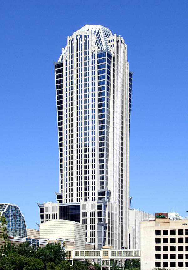 The Hearst Tower, Charlotte's 3rd-tallest building.